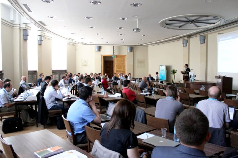 16th International Conference on Business Information Systems